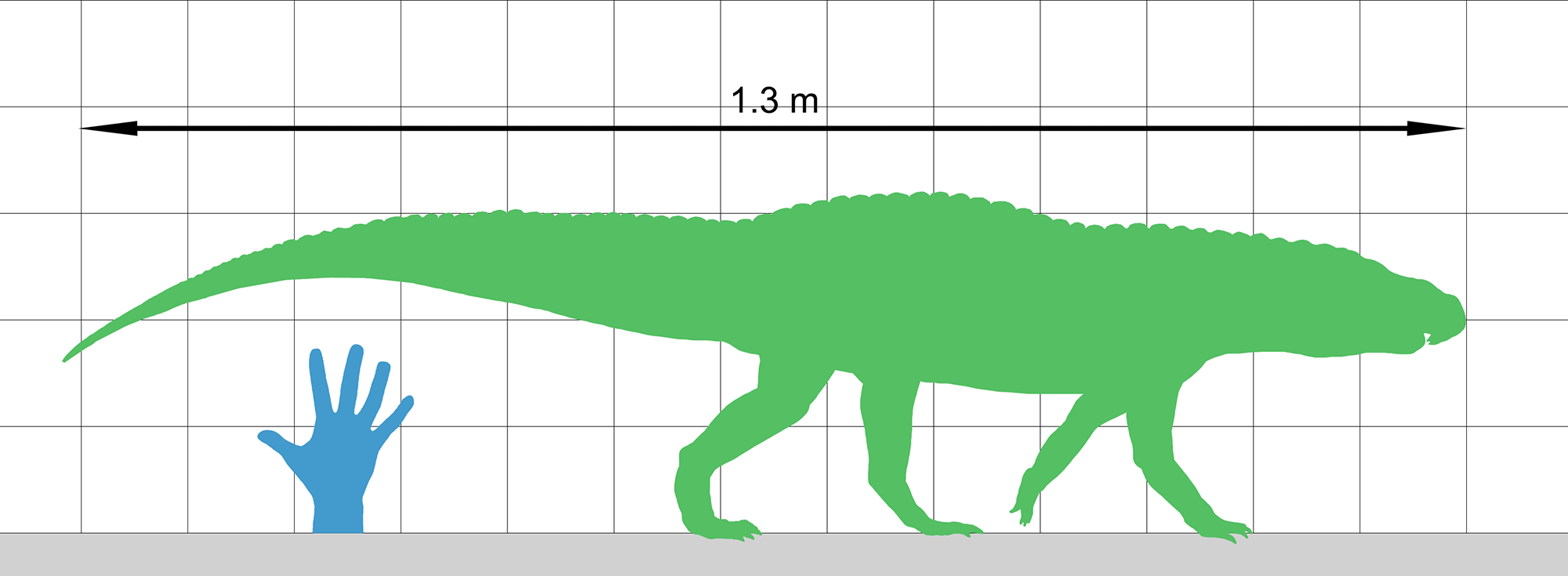 Size of Riojasuchus